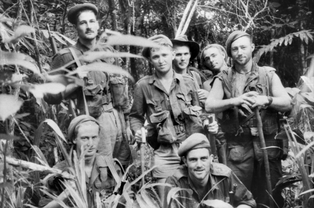 New Guinea. July 1943. Members of the 2/2nd Australian Independent Company, which later became the 2/2nd Australian Commando Squadron and formed part of the Bena Force, in the Weisa-Waimeriba area, New Guinea, about July 1943.